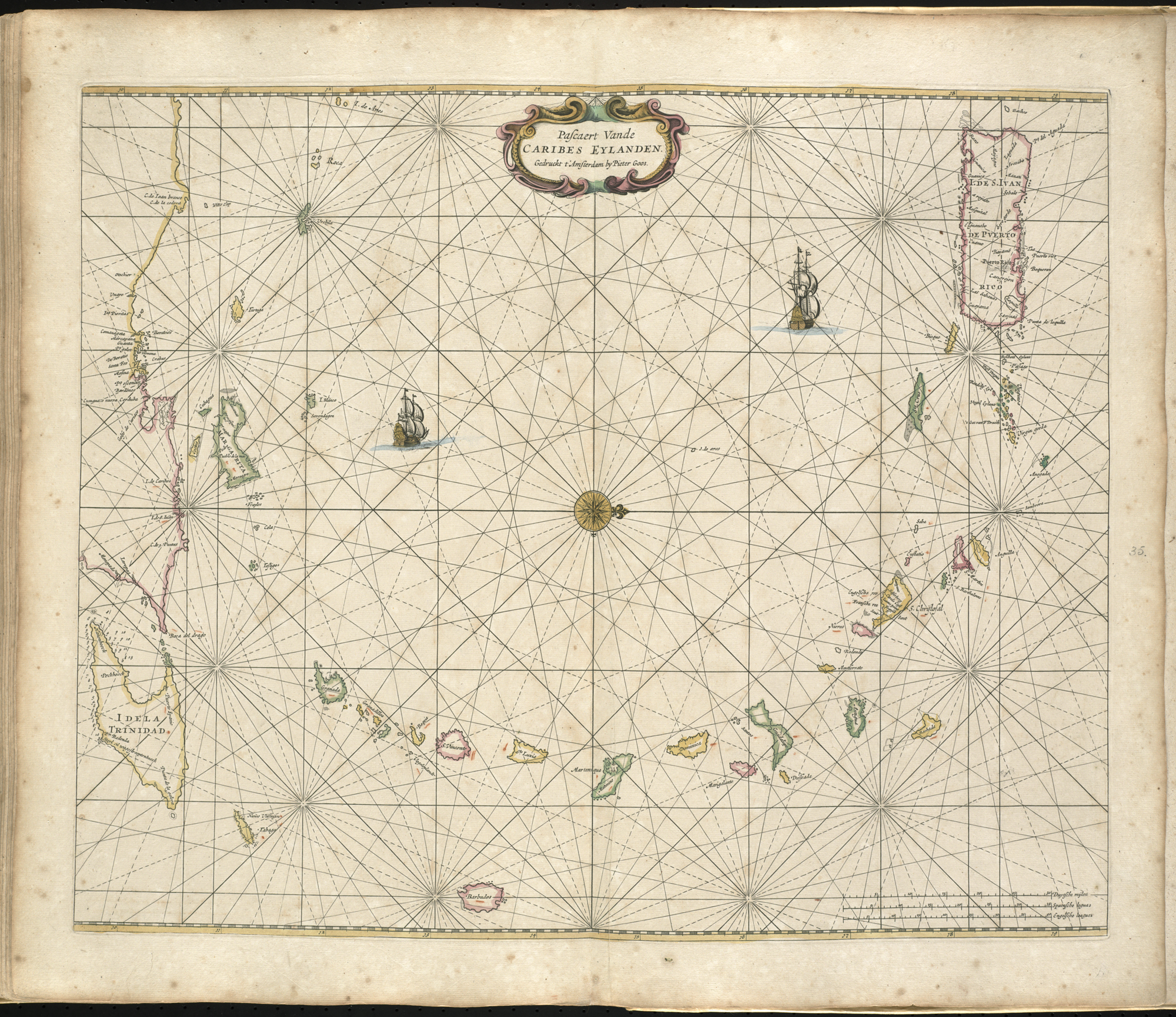 Zoom into this map at . Author: Goos, Pieter Publisher: Goos, Pieter Date: 1672 Location: Antilles, Lesser, Atlantic Coast (South America), West Indies Dimension: 43 x 54 cm. Scale: [ca. 1:2,050,000] Call Number: G1059 .G66 1672